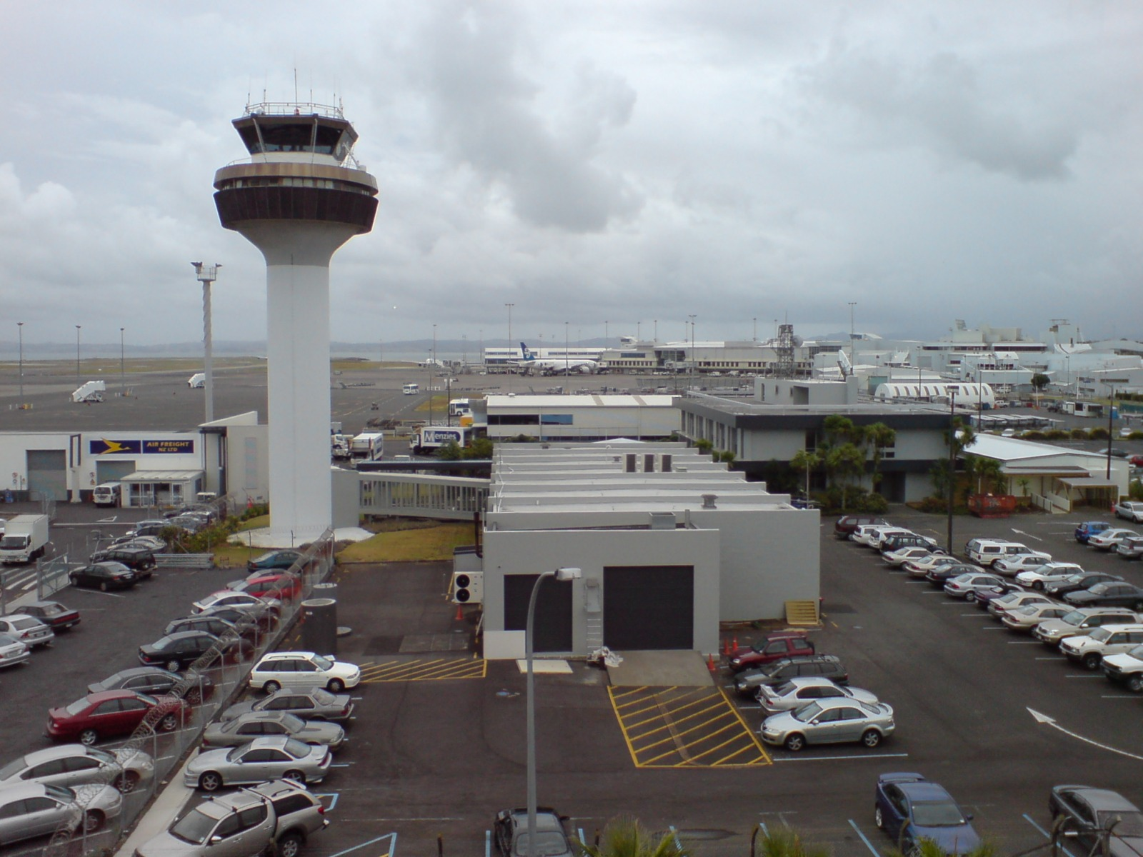 Auckland International Airport, Auckland, New Zealand, looking west. Photo taken from the upper levels of the carparking building north of the Domestic Terminal.